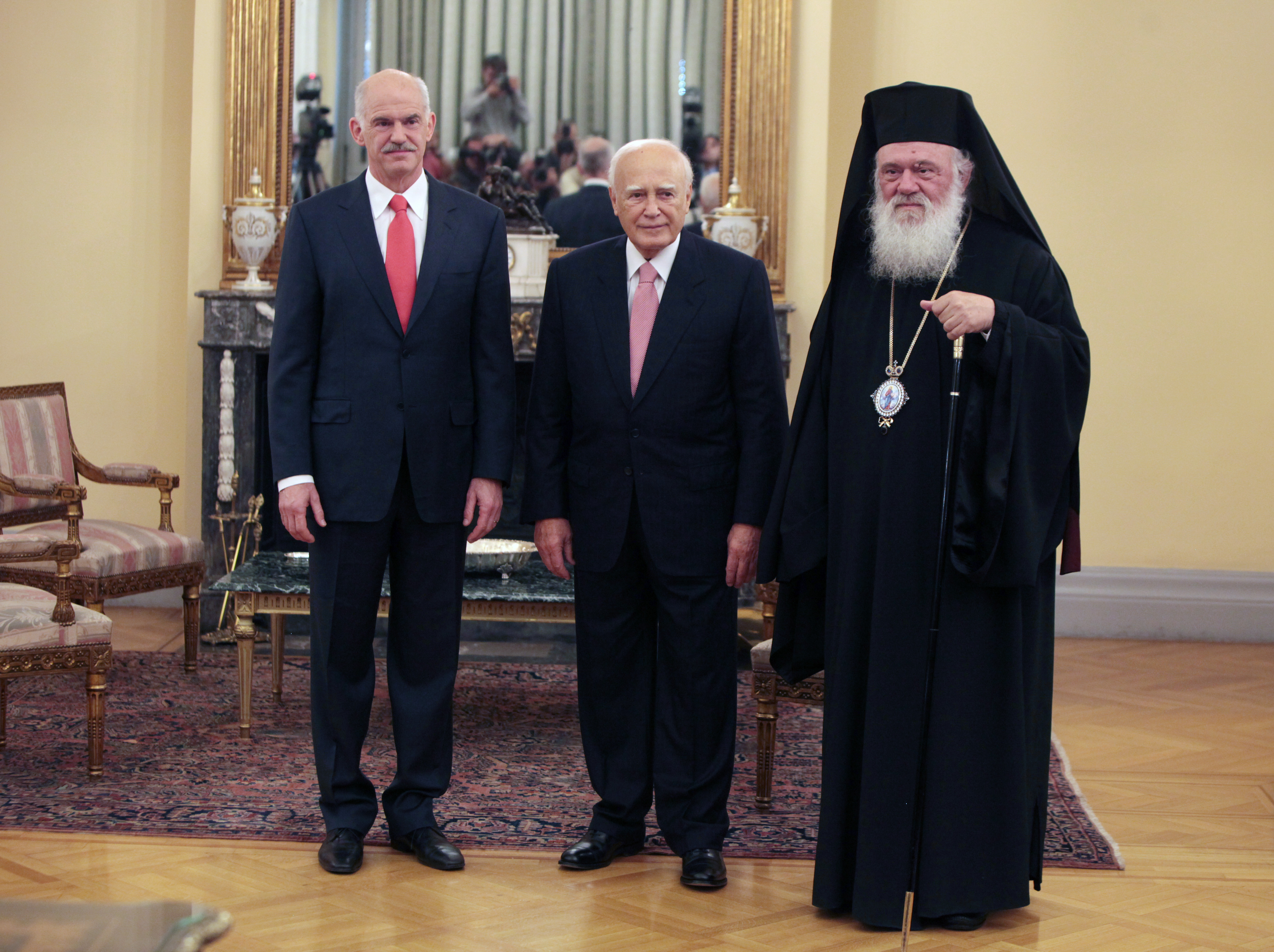 The 182nd Prime Minister of Greece George Papandreou, the President of Greece Karolos Papoulias and Archbishop of Athens Ieronymos II in the inauguration ceremony at the Presidential Palace in Athens, Greece, Oct. 6, 2009.